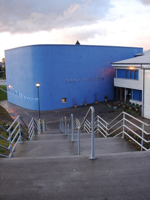 Scoil Nioclais A modern and very blue school building.